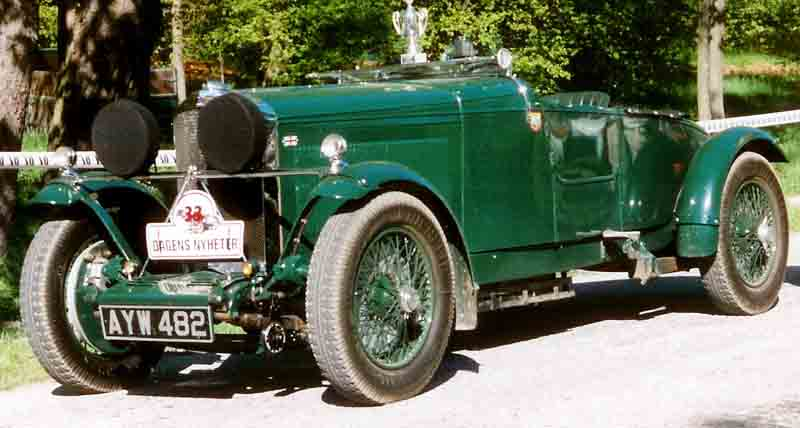 Talbot 105 1934